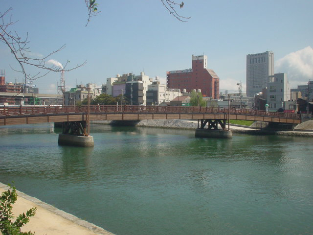 Tokiwa bashi in Kokura Kita ward, Kitakyushu, a reconstruction of a bridge on the Nagasaki Kaido, the route from Nagasaki to Edo(Tokyo) taken by the Dutch and also Japanese daimyo to fulfil their obligation (sankin kotai) of visiting the Shogun once every two years. On the right of the photo is the Rihga Royal Hotel. The Dutch brought an elephant over this bridge to show the Shogun. Photo taken by Ian Ruxton.